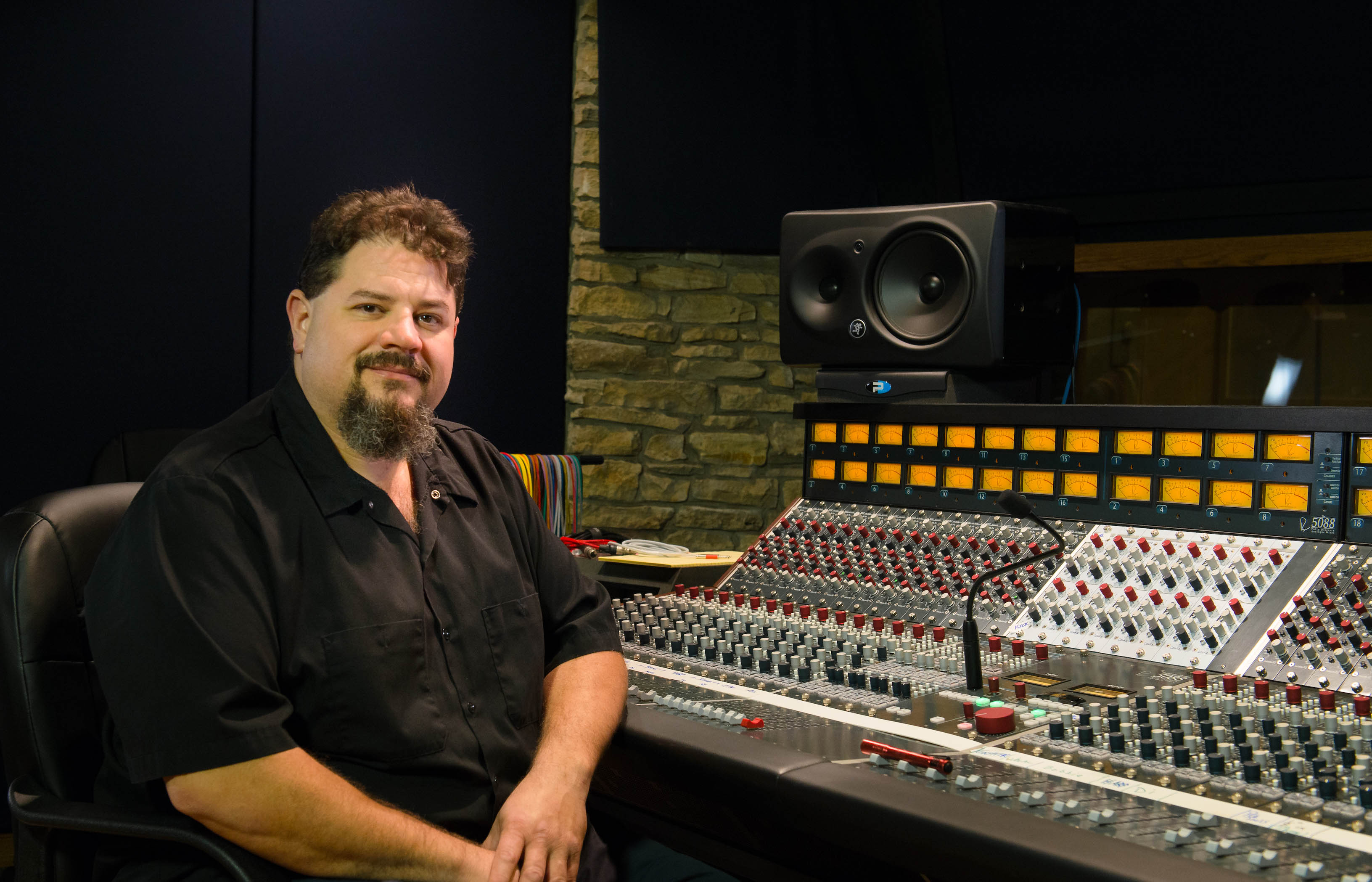 Steve Chadie at console in Willie Nelson's studio